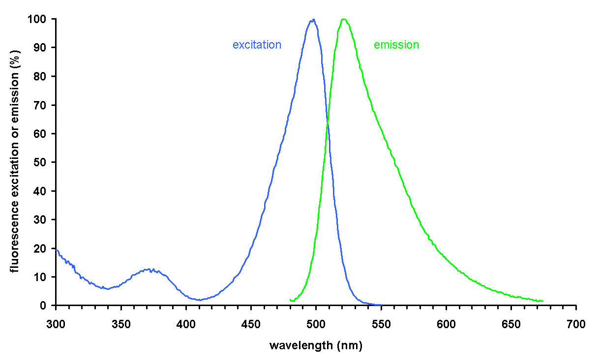 fluorescence excitation and emission spectra of SYBR Green I bound to DNA